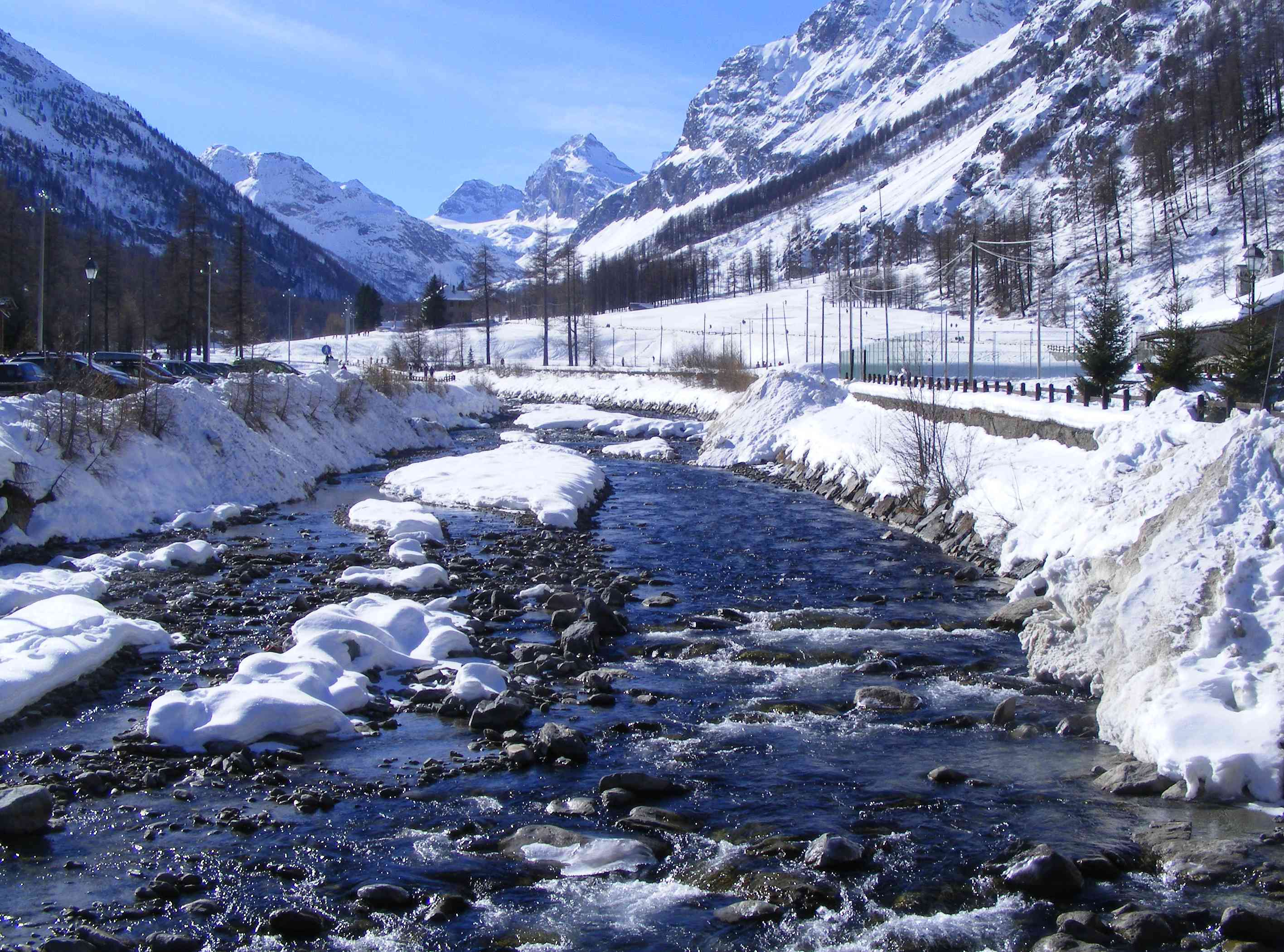 Dora di Rhêmes in Chanavey (Rhêmes-Notre-Dame, AO, Italy); in the background mount Granta Parey